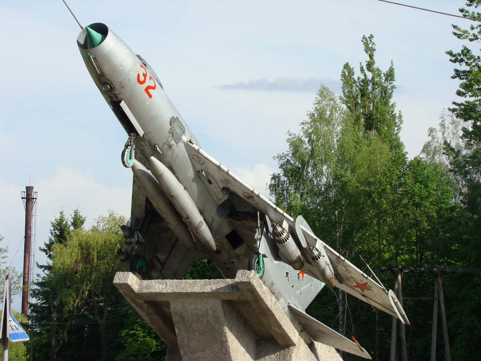 Su-7B, Ukraine, Ovruch